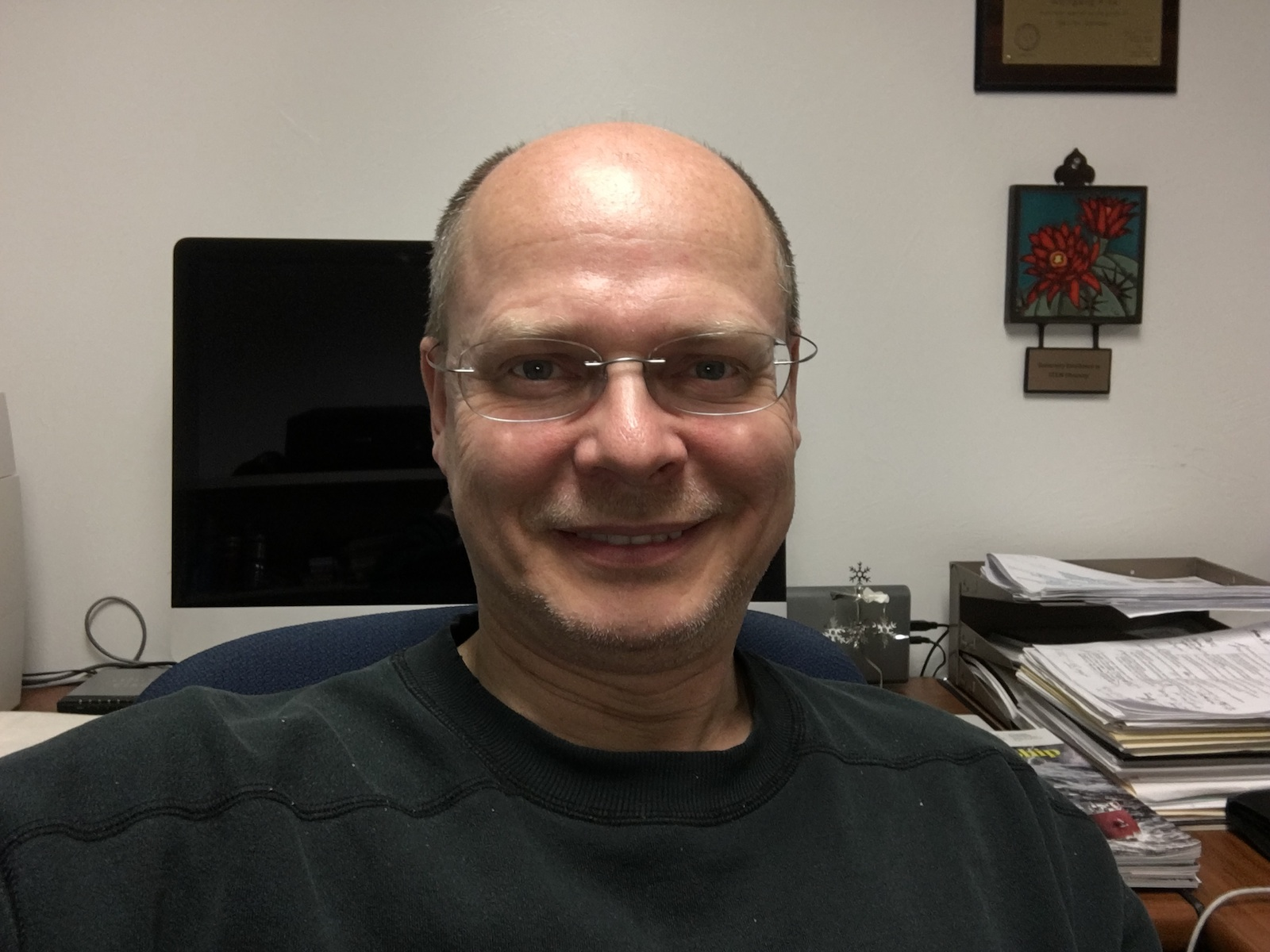 Dr. Wolfgang Fink photographed in his office on 4 Feb 2017.